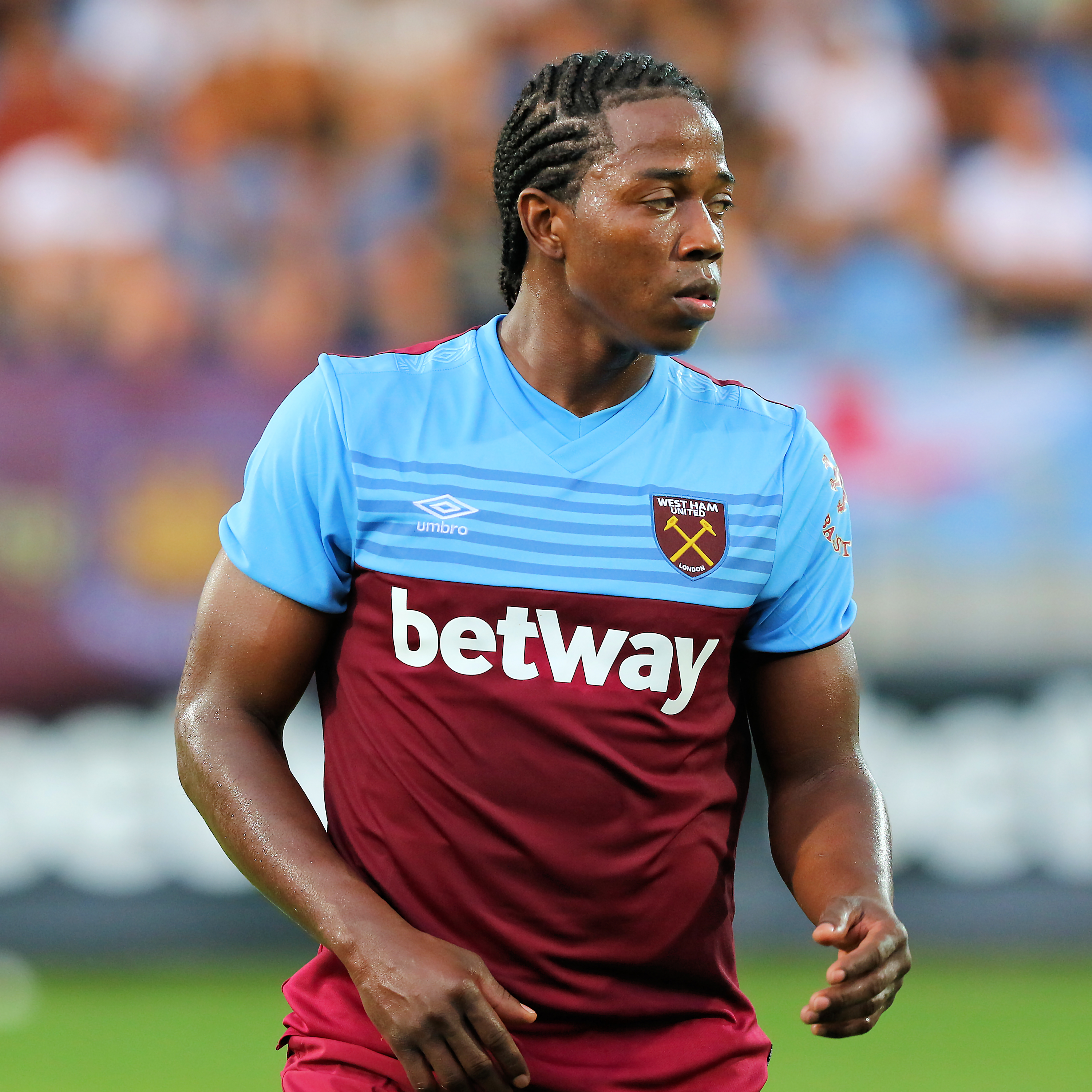 Friendly match Hertha BSC (blue-white shirts) vs. West Ham United (red-blue shirts) at 31-07-2019 3-5 (3-2) in the Sonnenseestadium in Roitzing. – The photo shwos . Carlos Sanchez